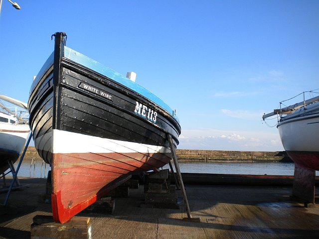 White Wing ME113 White Wing. Built in 1917 and now an exhibit in the Scottish Fisheries Museum.